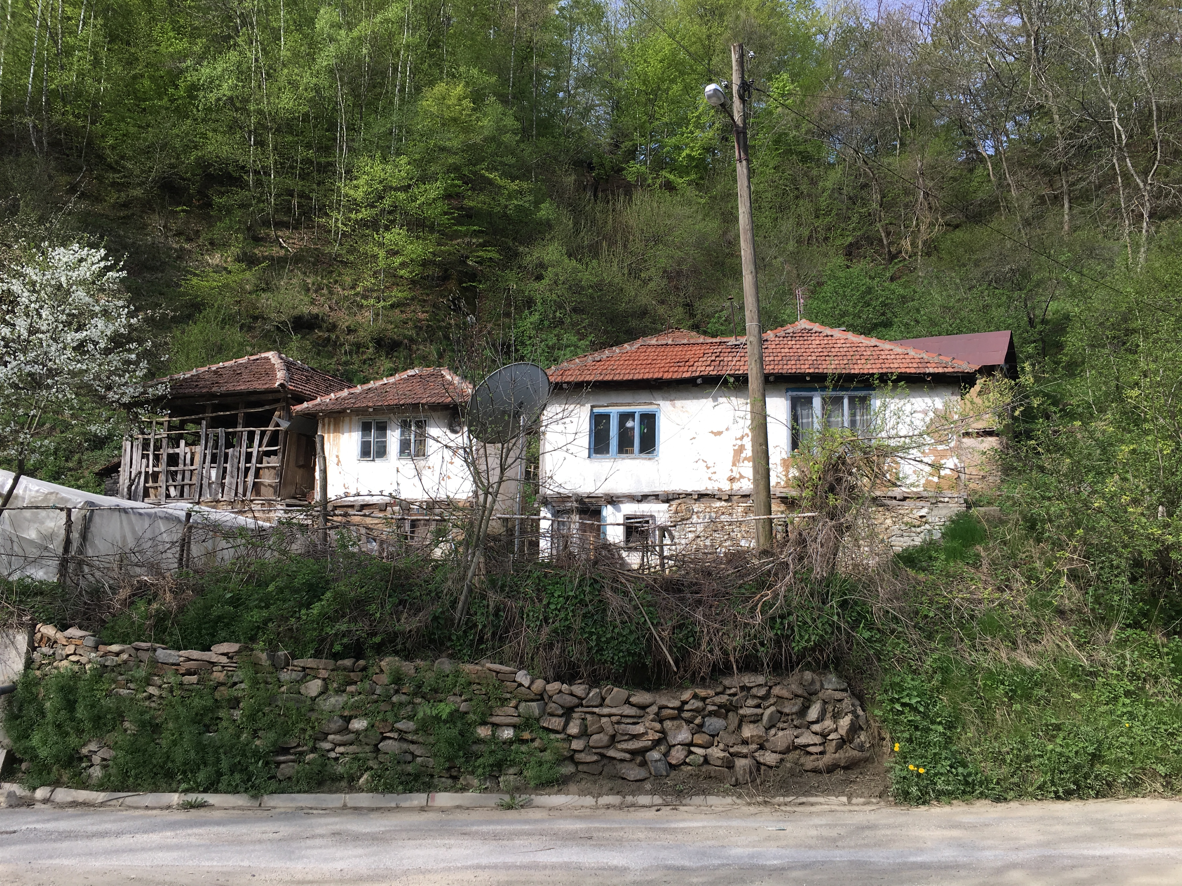 Houses in the village of Stanci